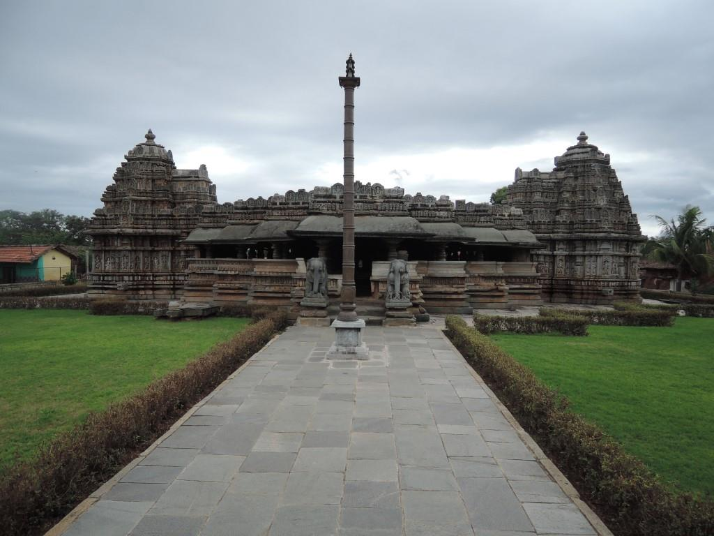 Veernarayana Temple, Belavadi, Chikamagaluru Dist, Karnataka